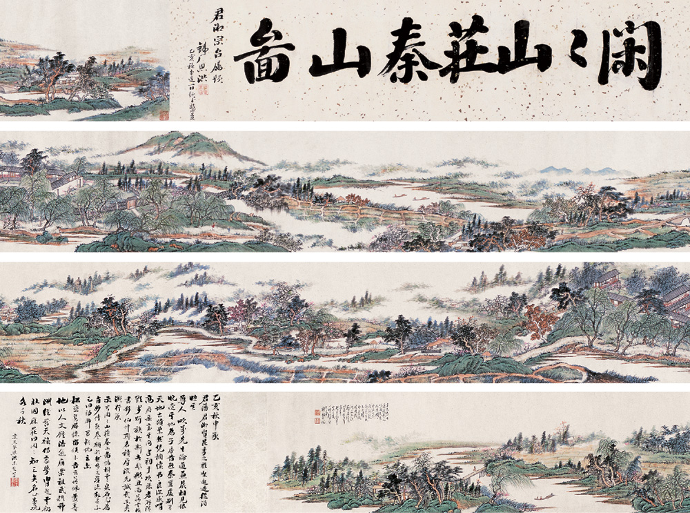 Landscape panting of Xianxian ShanZhuang (villa of Gao Xie) and Qianshan Hill (a hill in suburban Shanghai), by painter ZHENG Wuchang in 1931.